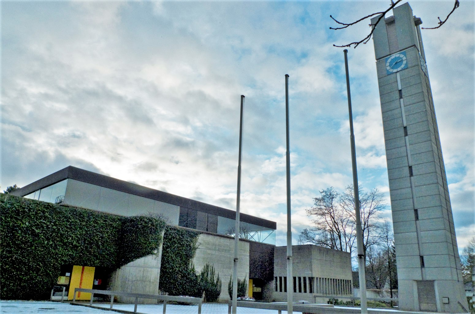 St. Christoph Kirche München